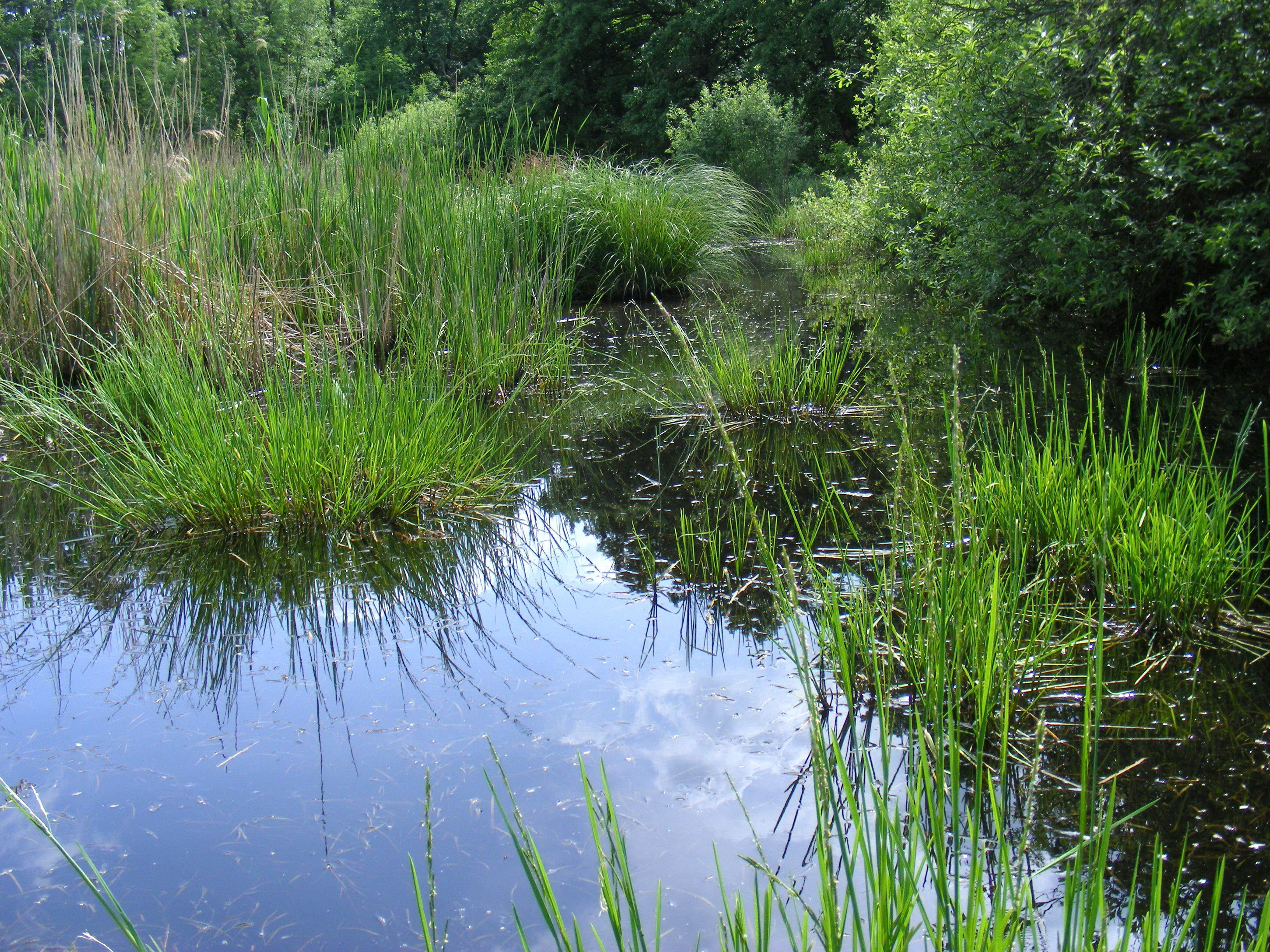 One ha size, average 2.3 feet deep fen located on Fekete-hegy, Balaton Uplands, Hungary. The photo shows the coexistence of different plant associations by means of their dominant species.